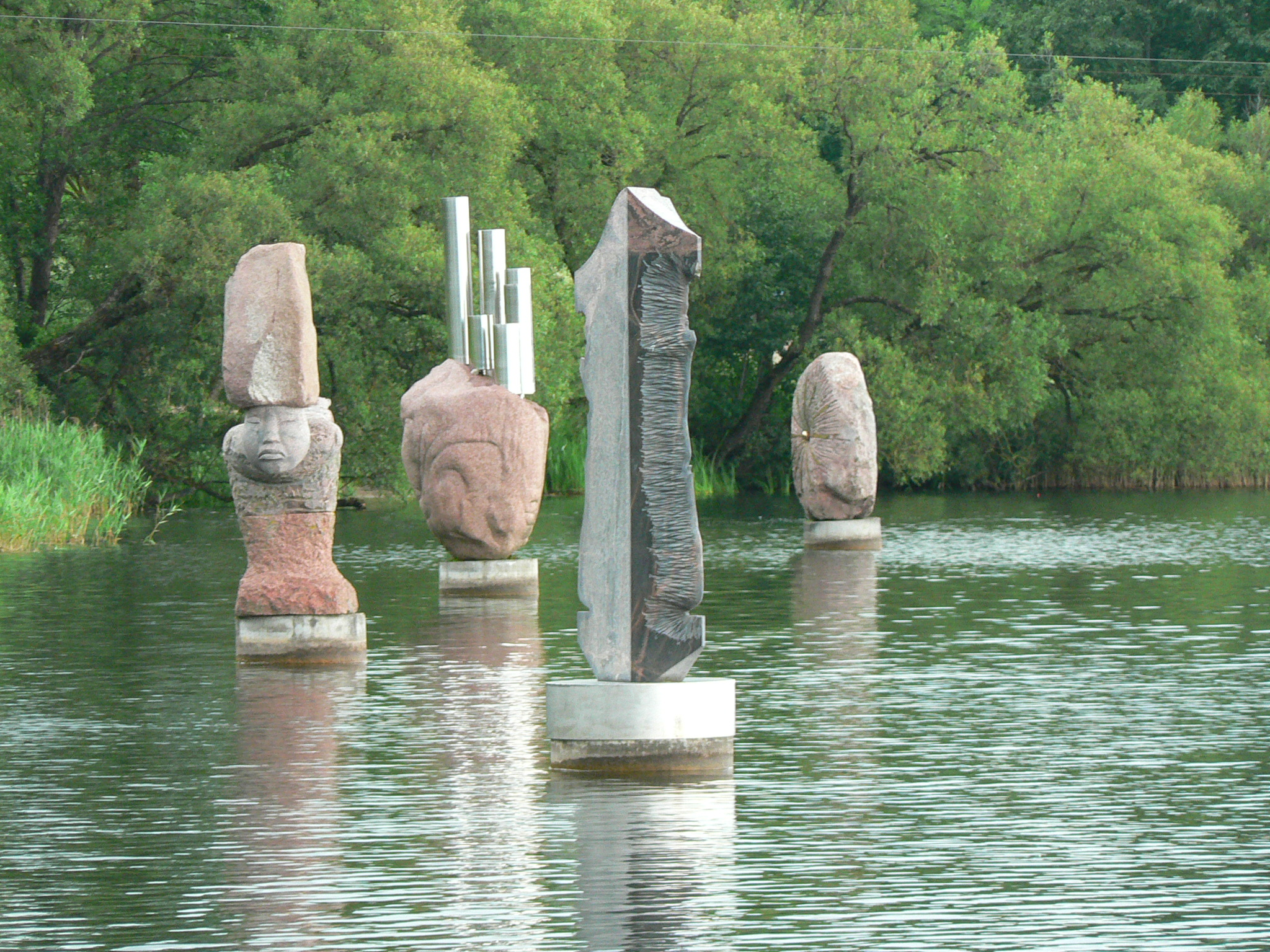 Group of sculptures from the park of stone sculptures "Vilnoja", installed in the lake Vilnoja, Vilnius